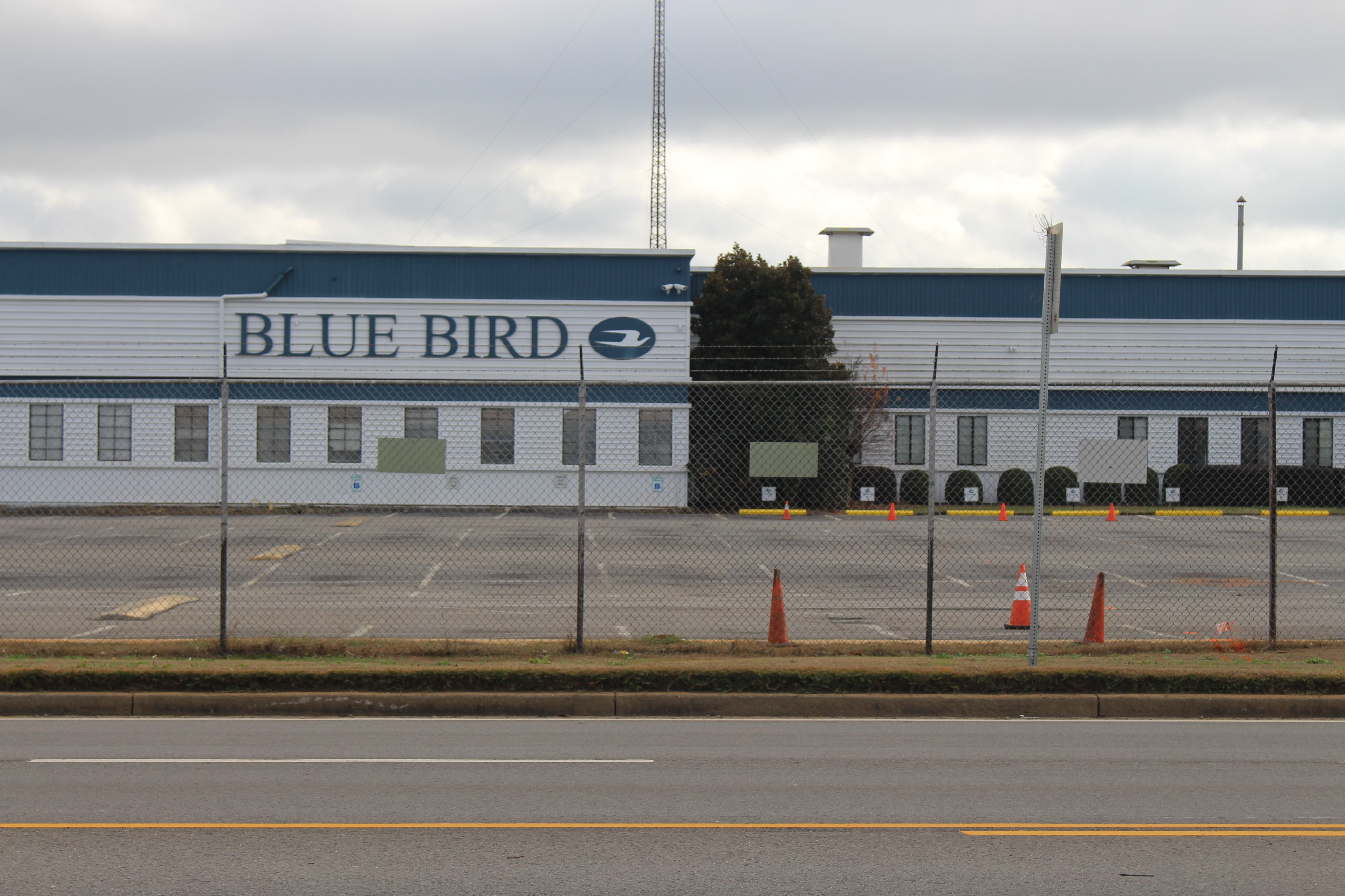 Blue Bird Corporation, Fort Valley, Peach County, Georgia